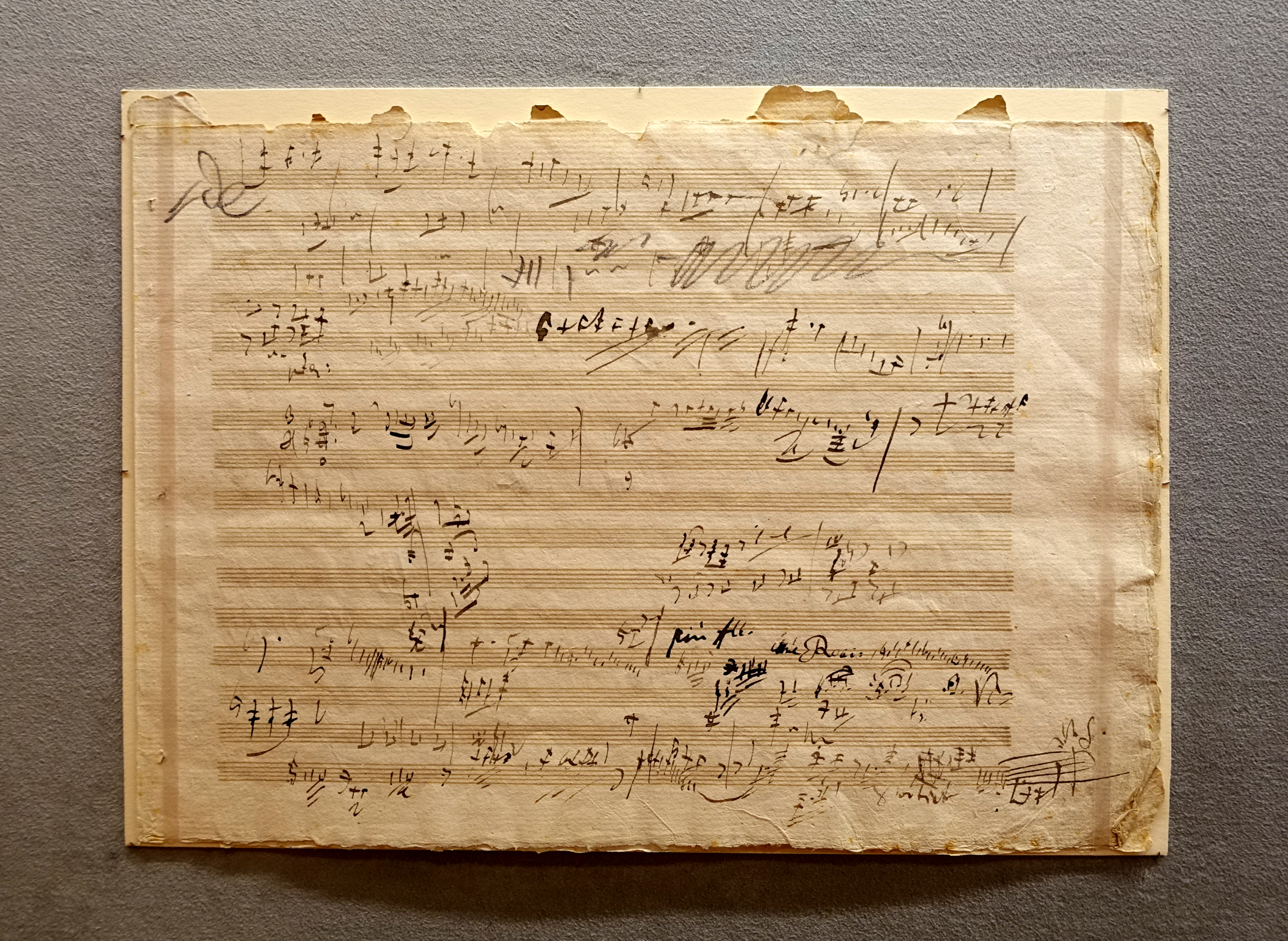 Exhibit in the Morgan Library & Museum - New York City, New York, USA.